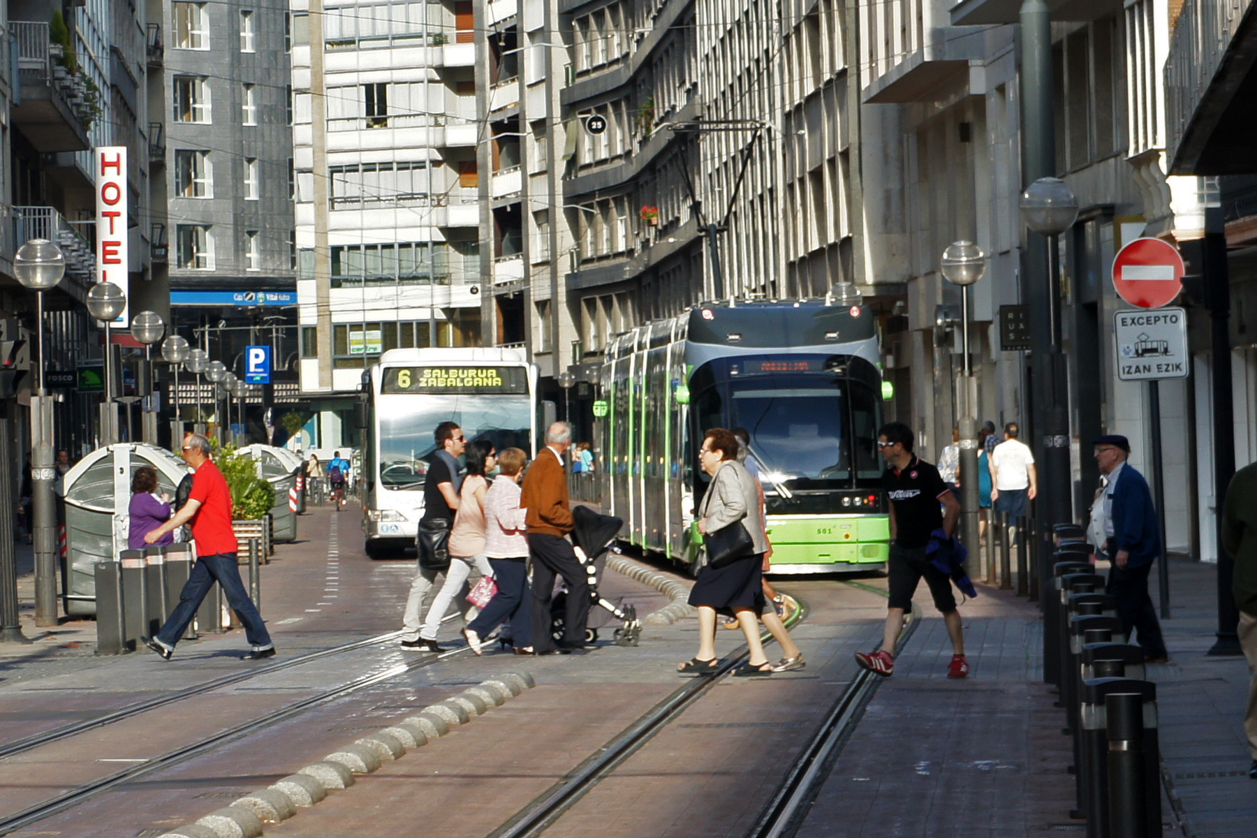 Eusko Tran and TUVISA bus in downtown Vitoria, Basque Country, Spain